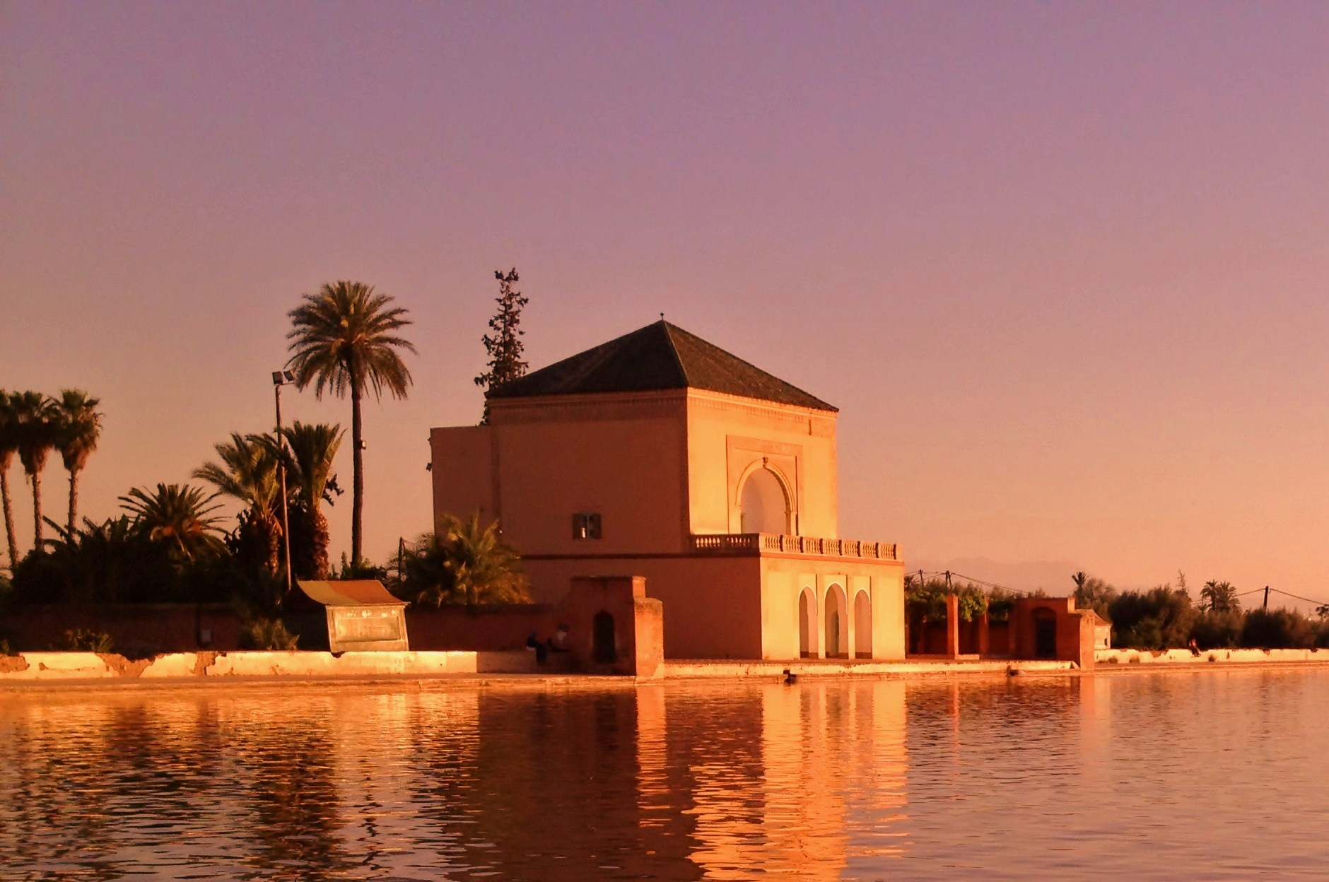 The moment of sunset_El Manara